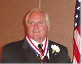 George Thomas Coker, receiving his DESA award This image was taken by the submitter on August 09, 2005. George Coker also agreed to its GFDL use on 23 Jan 2006. CokerDESA.JPG